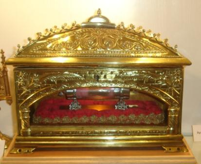 Reliquiary of St. Peter Almató, at Sant feliu Sasserra Church